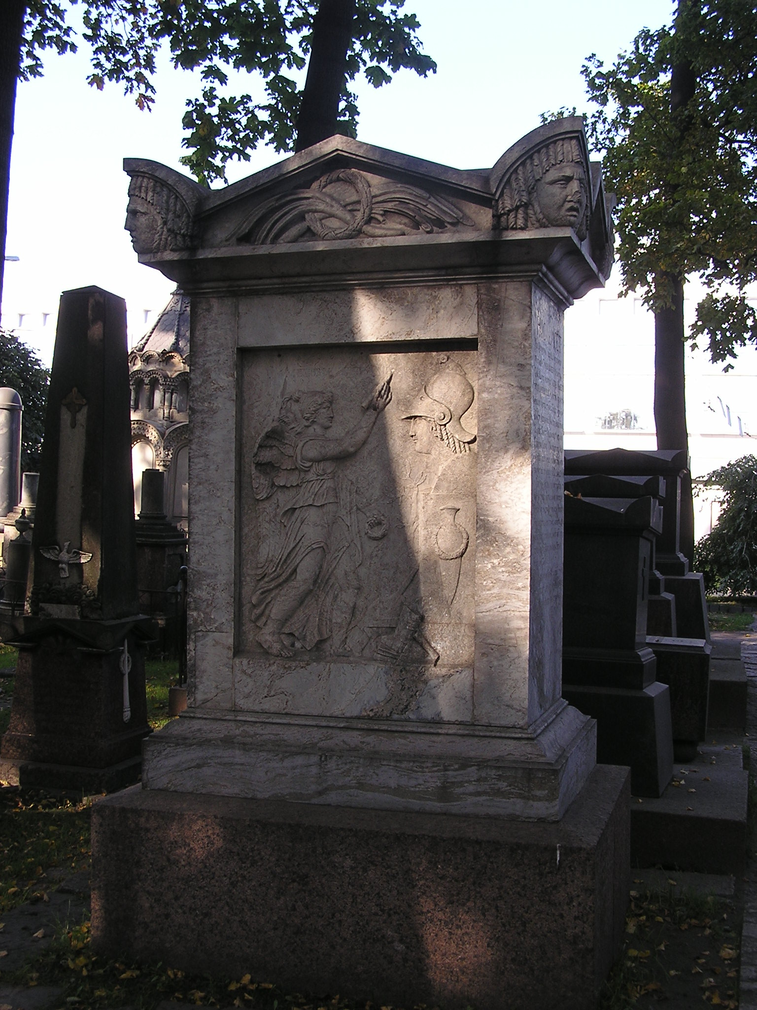 Lazarev Cemetery